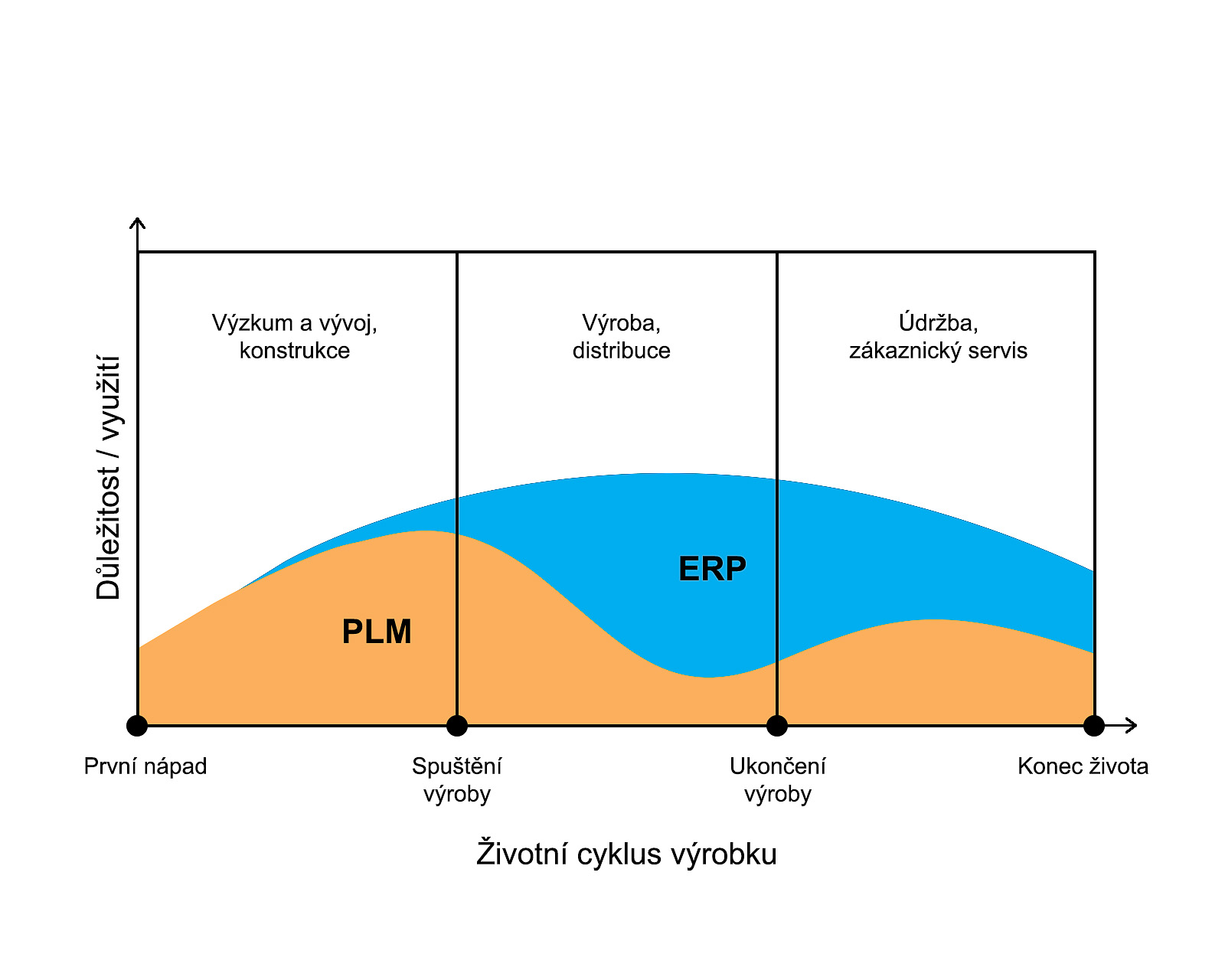 PLM and ERP roles during product's lifecycle, in Czech language